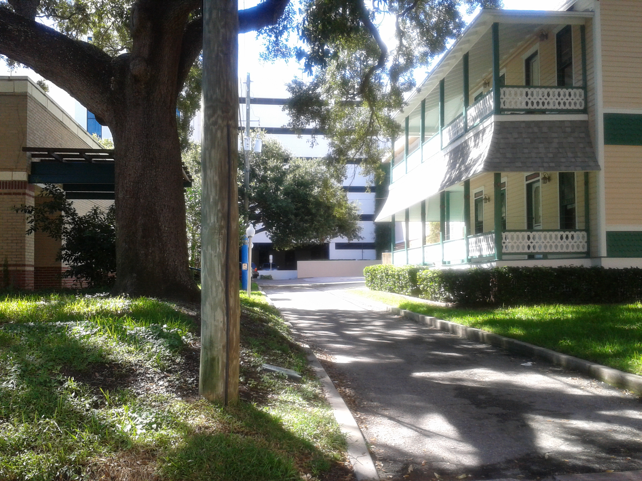 Potter House, 577 Second Street South St. Petersburg